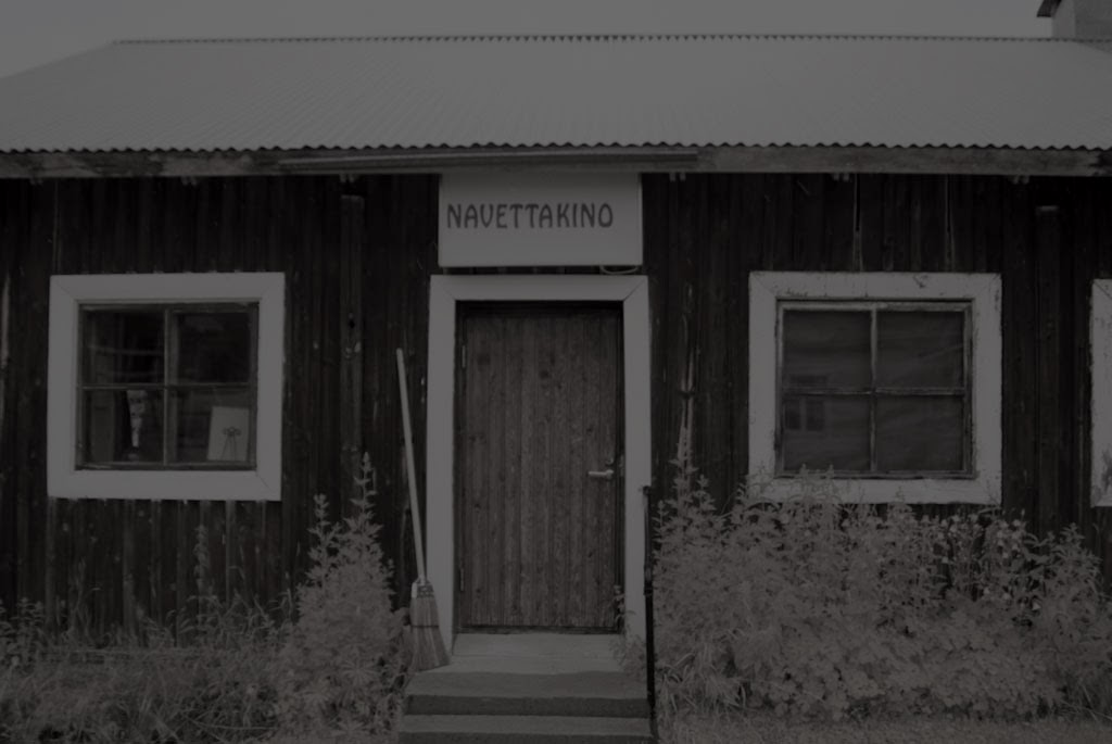 Navettakino is a Movie theater in Pyhalahti, Konnevesi Finland